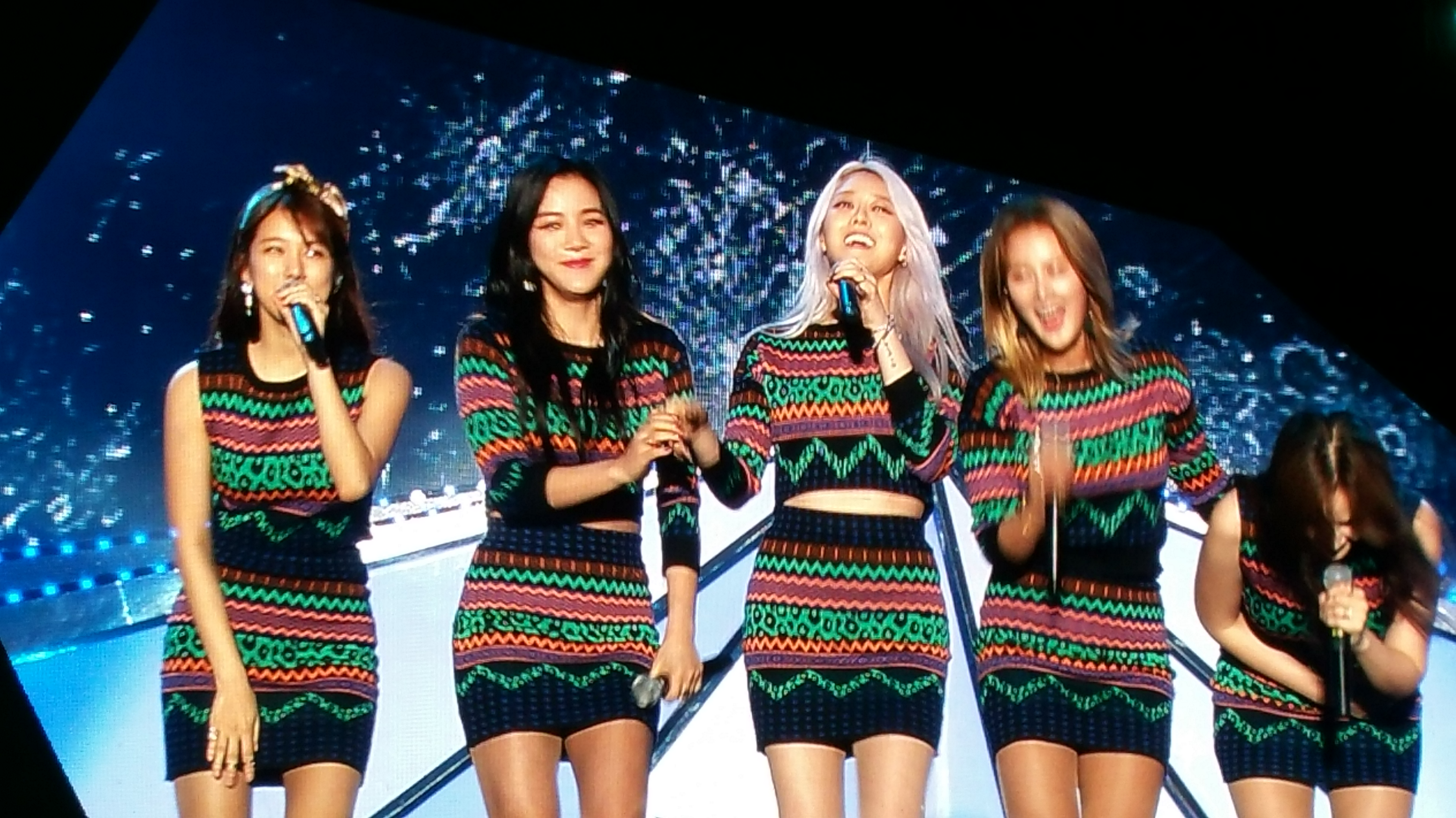 KCON JEJU 2015, stadium concert performers SPICA, November 7, Jeju Stadium, Jejudo, South Korea.